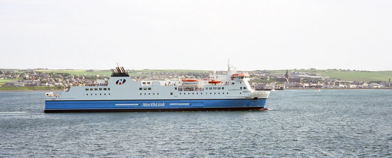 NorthLink ferry, MV Hrossey outside Kirkwall in the Orkney Islands, with St Magnus Cathedral in the background